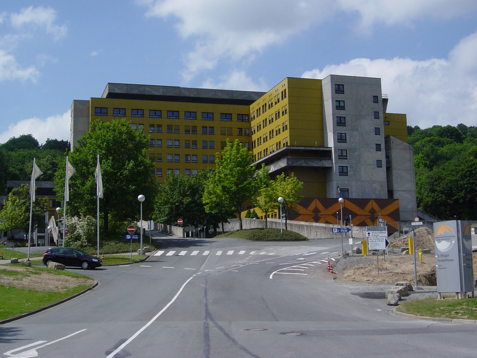 St. Ansgar-Hospital in Höxter (Germany)